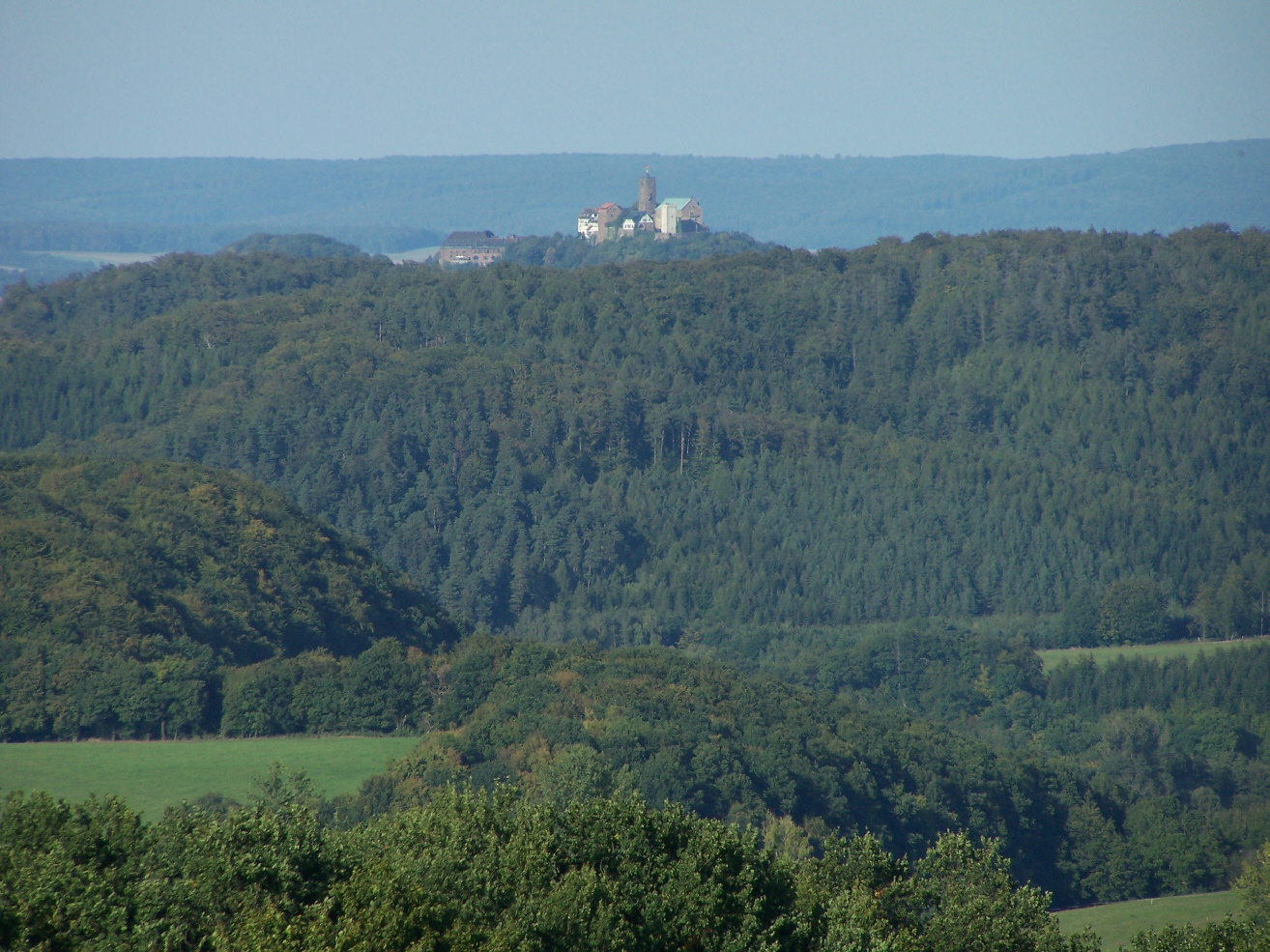 The Thuringian Forest and the Wartburg - a sight to behold.